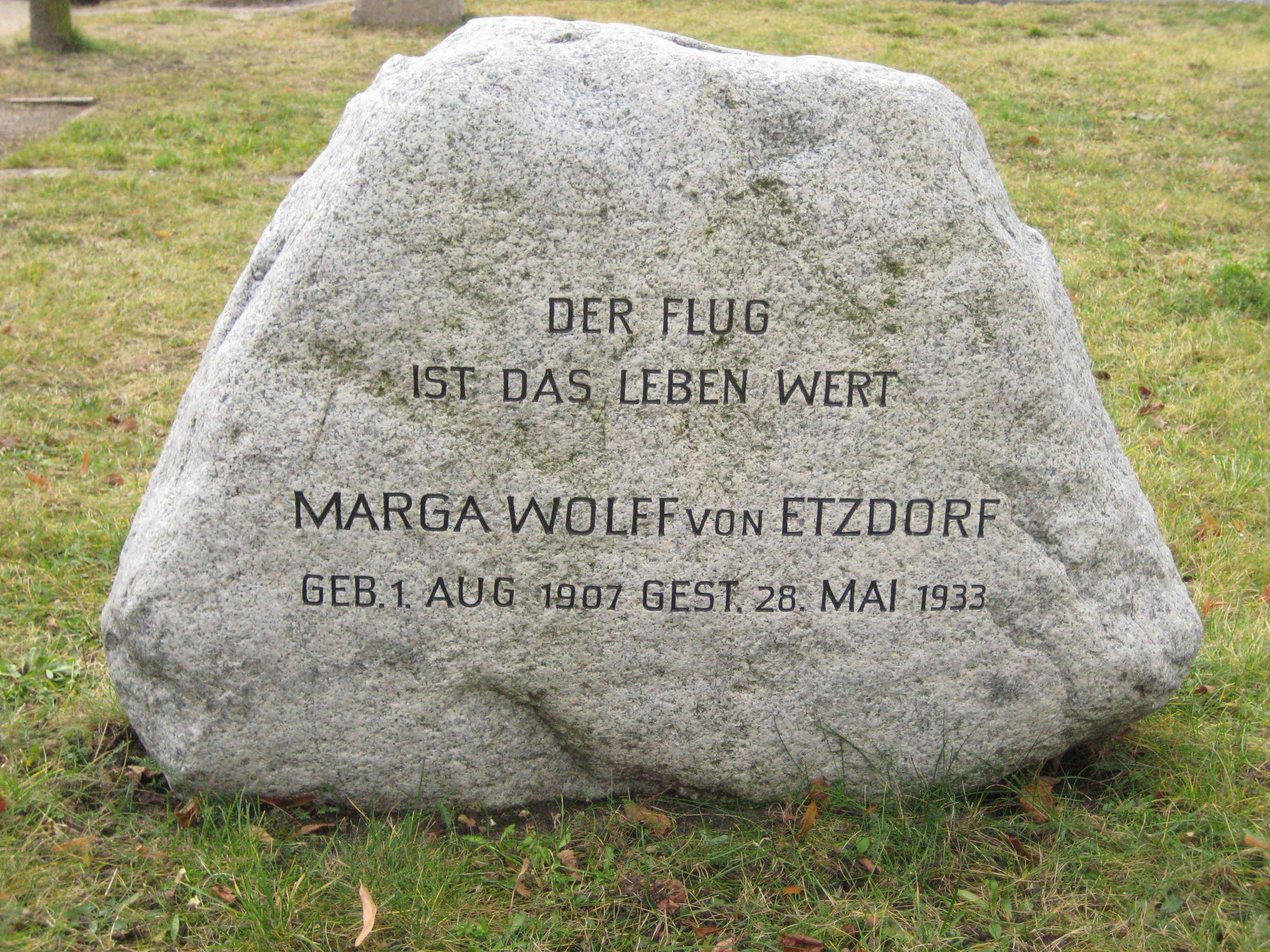 grave of Marga von Etzdorf (1907-1933) at Invalidenfriedhof cemetery in Berlin